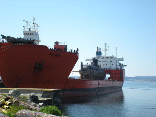 HMCS Chicoutimi on the TERN docked at Odgen Point, Victoria, B.C. Shipname: TERN IMO Number: 8000977 MMSI Number: 306029000 Callsign: PJXY Length: 181 m Beam: 32 m Information about Tern may be found at IMO 8000977.A ship can change name and flag state through time, but the IMO number remains the same through the hull's entire lifetime. As a result, it can be useful to identify a ship by using the IMO number.